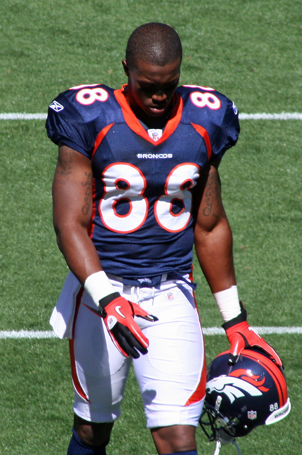 Demaryius Thomas, a player on the Denver Broncos American football team.